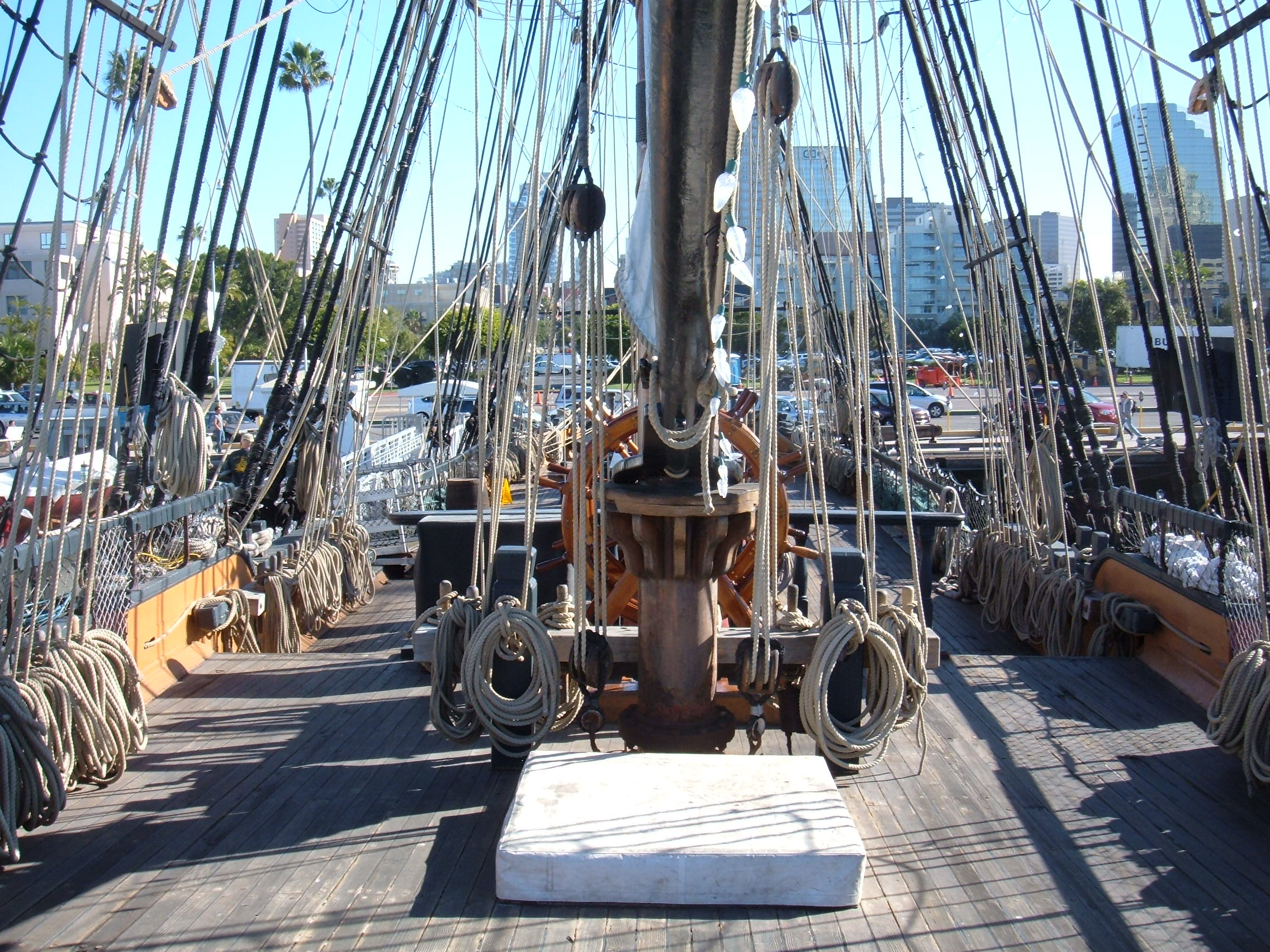 The main deck of the HMS Surprise at the Maritime Museum of San Diego.